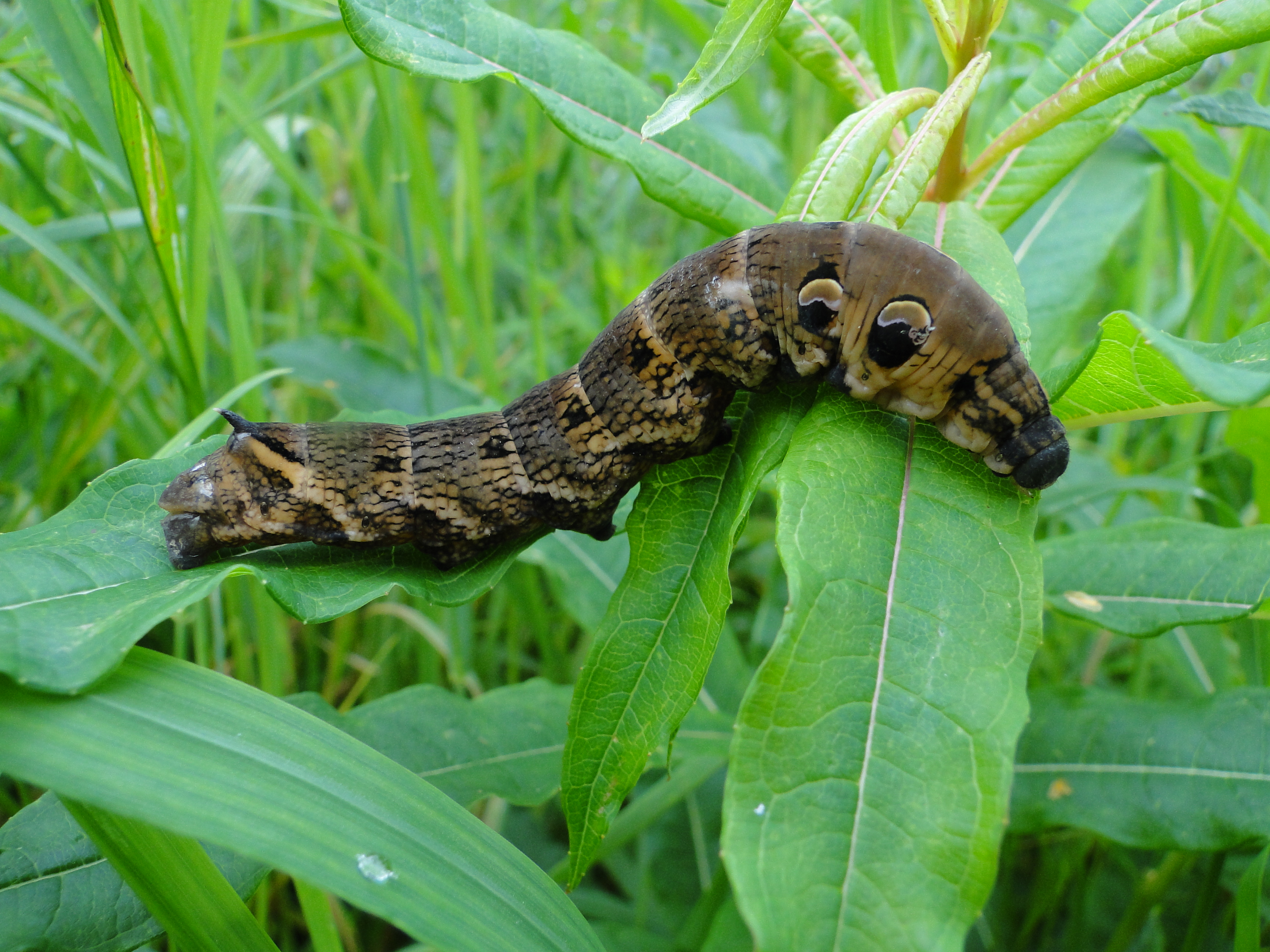 Elephant hawk moth caterpillar